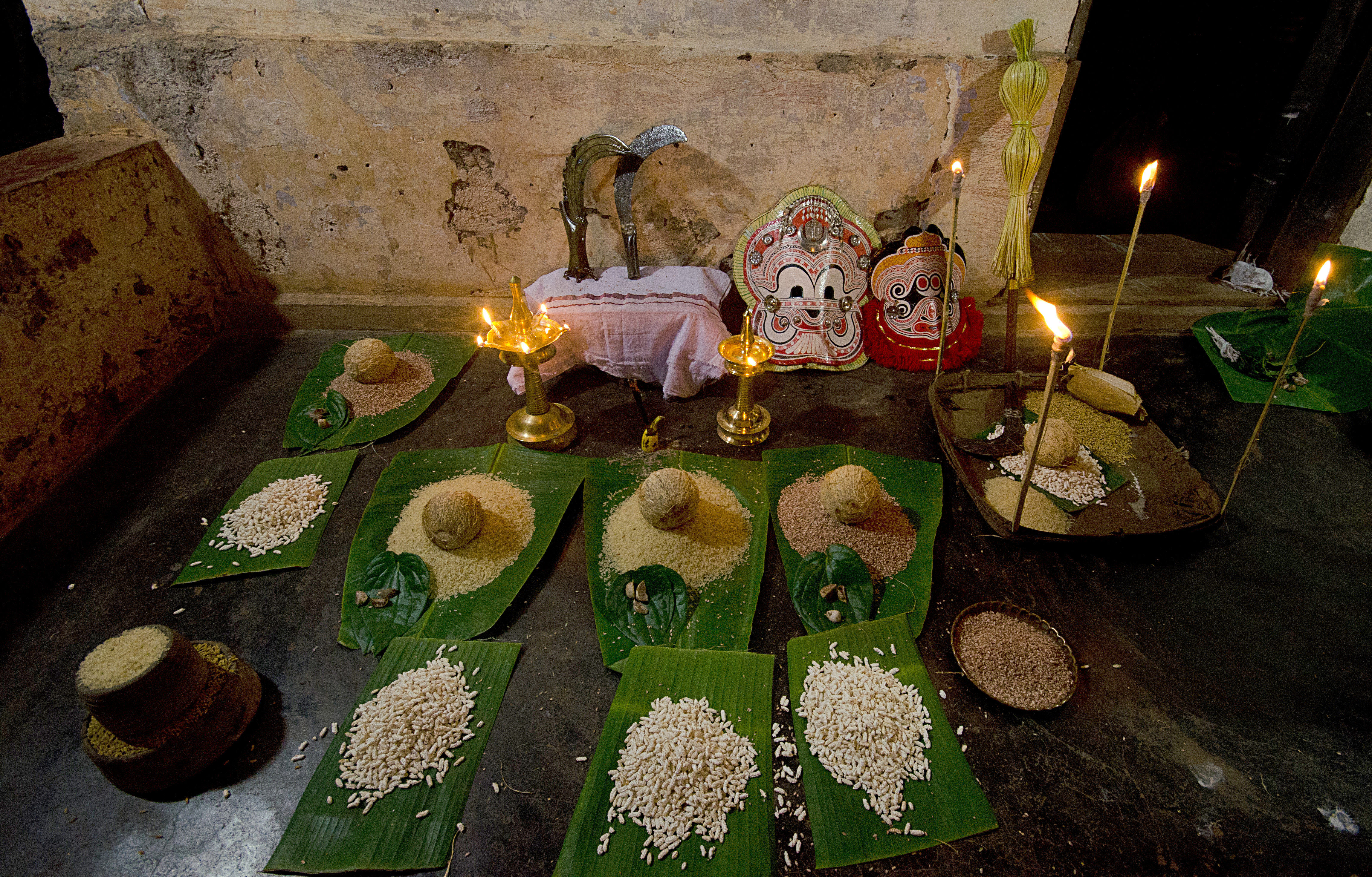 Offerings for Pottan Theyyam.Rice,Coconut,Arcanut etc are kept on plantain leaves . Three Sickles of Pottan Theyyam are also seen. The mask on the left side belongs to Pottan Theyyam and the smaller mask on right side is of Polaran Theyyam.